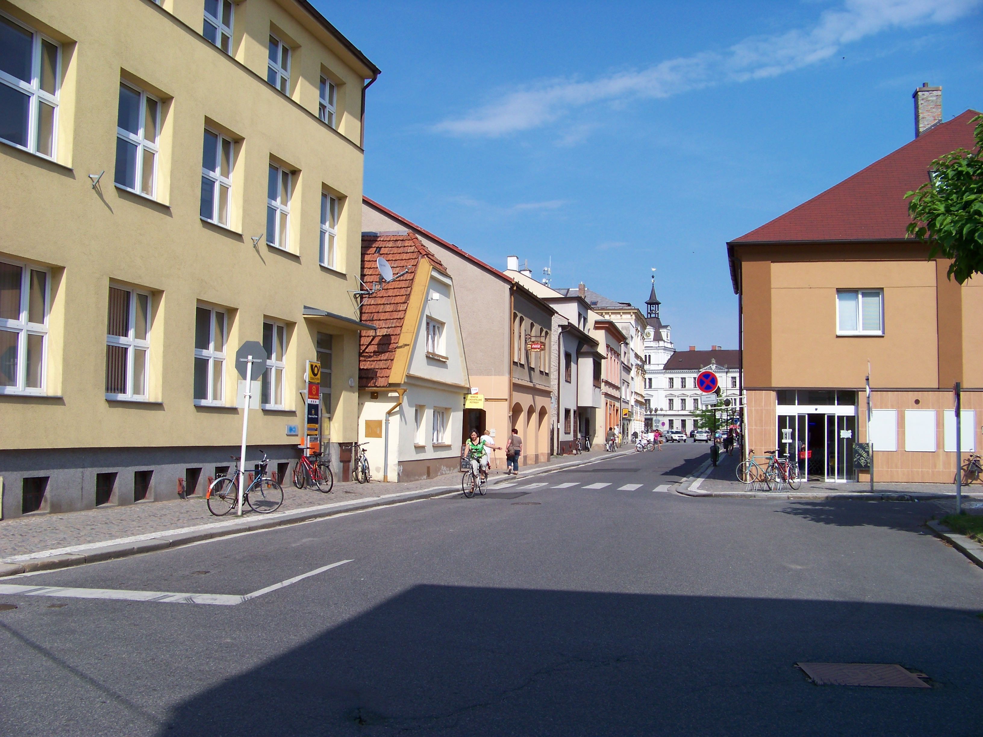 Choceň, Ústí nad Orlicí District, Pardubice Region, the Czech Republic. Dolní street.